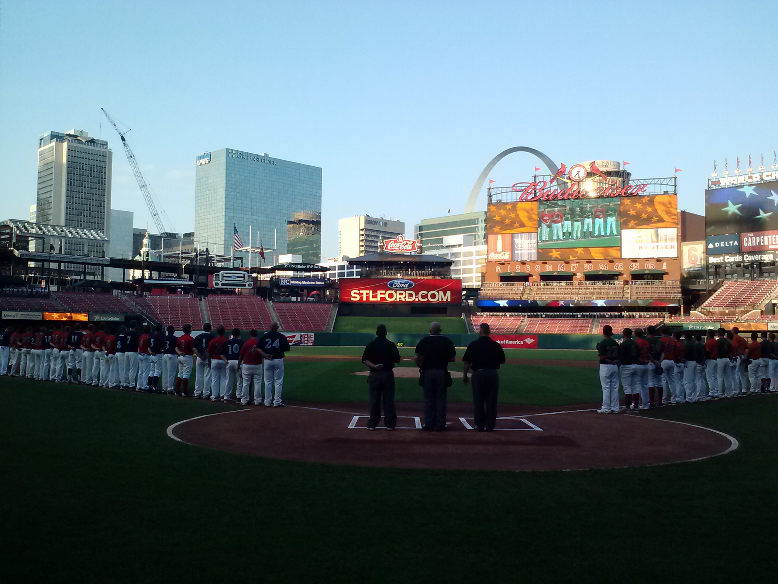 The National Anthem being played at Busch Stadium for the 2013 LCBL All-Star Game